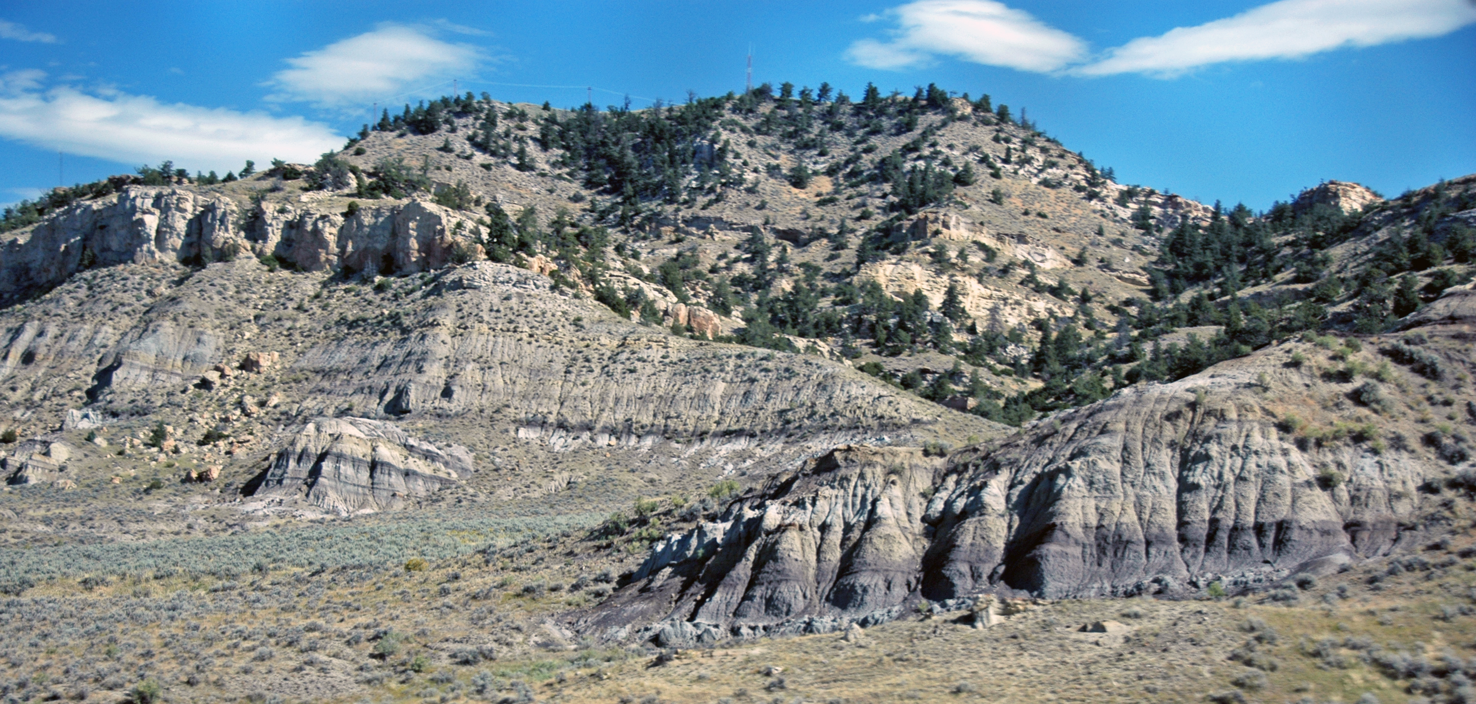 Wyoming's Meeteetse Formation is an Upper Cretaceous unit that consists of mixed siliciclastics and coal. It varies in thickness from a feather's edge (due to erosion) to almost 1,000 feet thick. In the deep subsurface, the Meeteetse reaches about 4,500 feet thick and can have up to 100 different coal horizons, some of which are 20 feet thick. Stratigraphy: Meeteetse Formation, Upper Cretaceous Locality: outcrop on the northeastern side of Route 120, southeast of the town of Meeteetse, southeastern Park County, northwestern Wyoming, USA Some info. from: Hickling et al. (1989) - Geology of the Upper Cretaceous and Tertiary coal-bearing rocks in the western part of the Wind River Basin, Wyoming. United States Geological Survey Bulletin 1813. 128 pp. 1 pl.